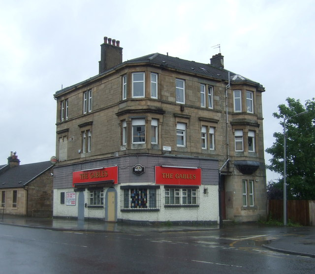 The Gables Bar